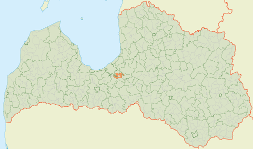 Location of Salaspils Parish in Latvia